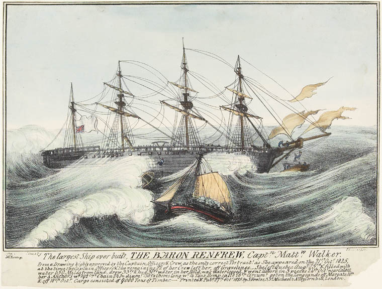 The Baron of Renfrew, a large disposable timber ship which travelled from North America to the United Kingdom.1 print / estampe : crayon lithograph with watercolour